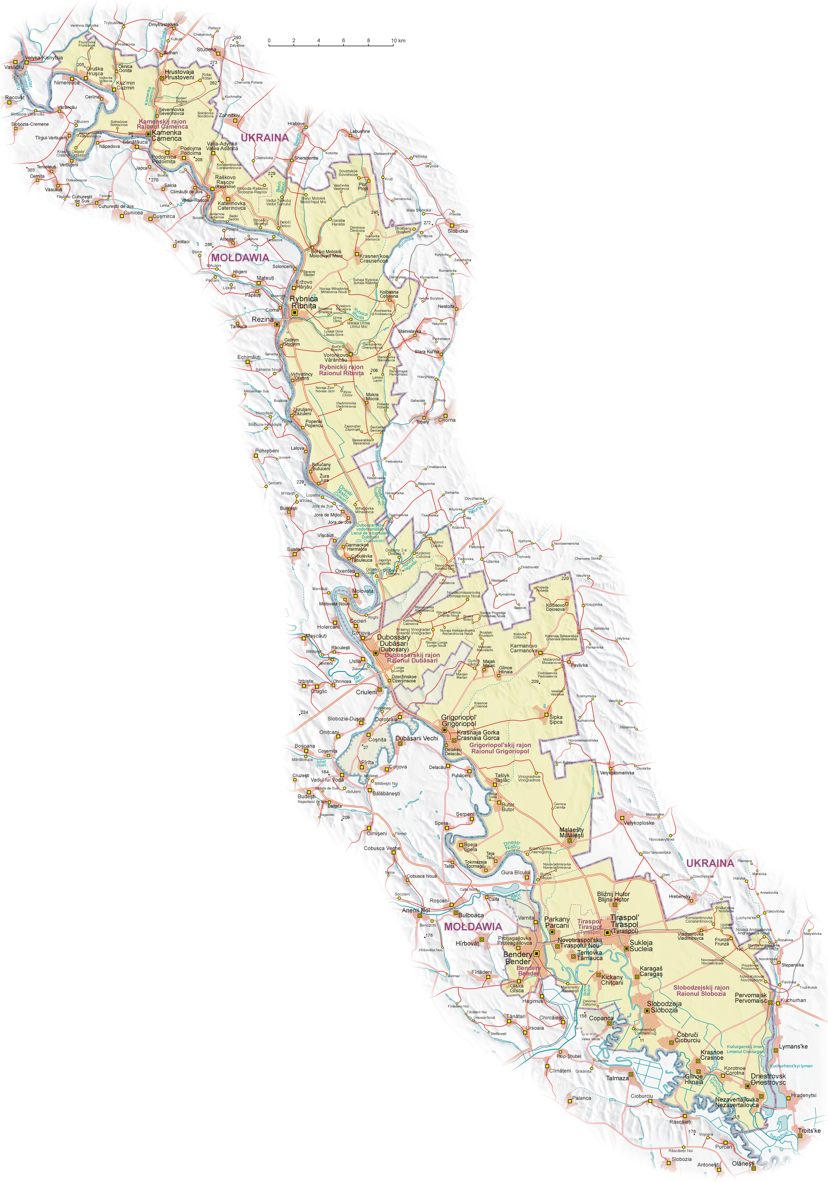 Map of Transnistria, based on Soviet and Ucrainian topographic map, and Shuttle Radar Topography Mission (STRM). Geographical names: in Transnistria: Russian names, in GOST 1983 transliteration, according to Transnistrian government and Moldavian names in latin alphabet in Moldova proper: Moldavian names in latin alphabet in Ukraine: Ukrainian names in Ukrainian National transliteration (1996) Polish exonyms Legend